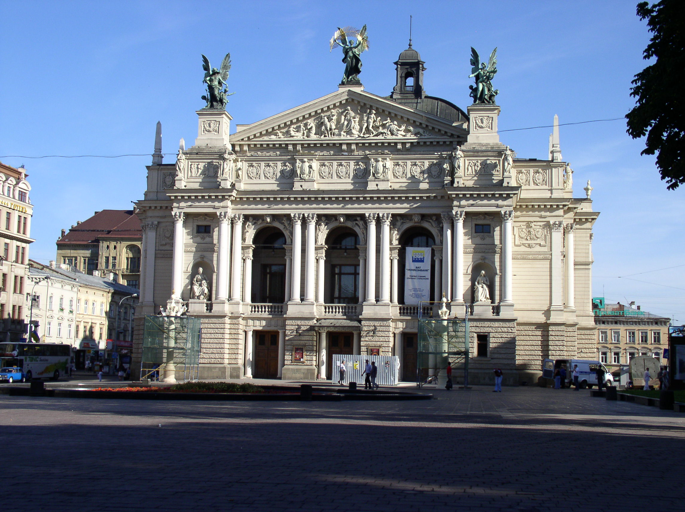 Opera theater. Lviv, Ukraine.